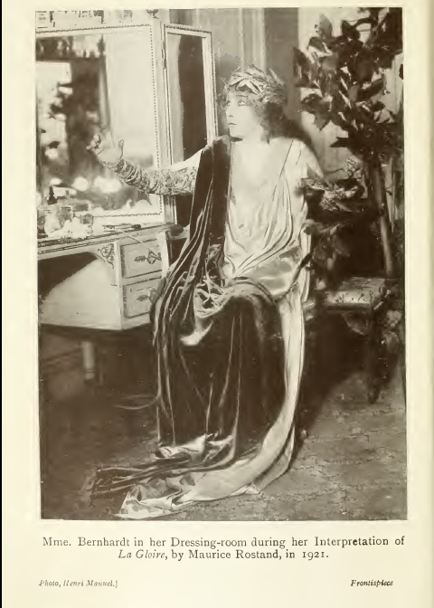 Sarah Bernhardt in her dressing room. She's playing a character from Maurice Rostand's La Gloire. Frontispiece of the 1923 book Sarah Bernhardt as I knew her.